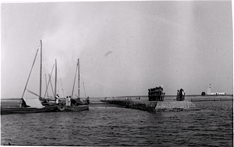 The photographs accompany a statement and evidence submitted to the British Government by the Government of Bahrain relating to Bahrain's claim to sovereignty over the Hawar Islands